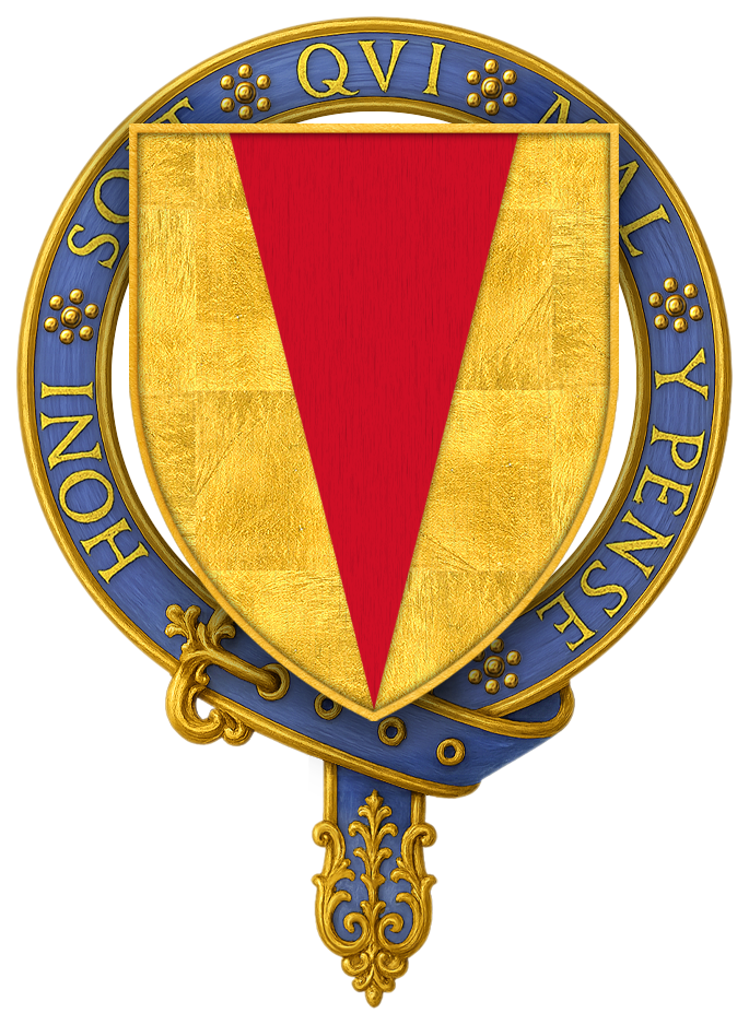 Coat of Arms of Sir John Chandos, KG “ Sir John Chandos, one of the Founders… Arms: Argent, a pile Gules. ” BELTZ, George Frederick, Memorials of the Order of the Garter from Its Foundation to the Present Time, London: William Pickering, 1841. Note that W. H. St. John Hope attributes "gold a pile gules" to Sir John based, I assume, on the appearance of Sir John's stall plate.